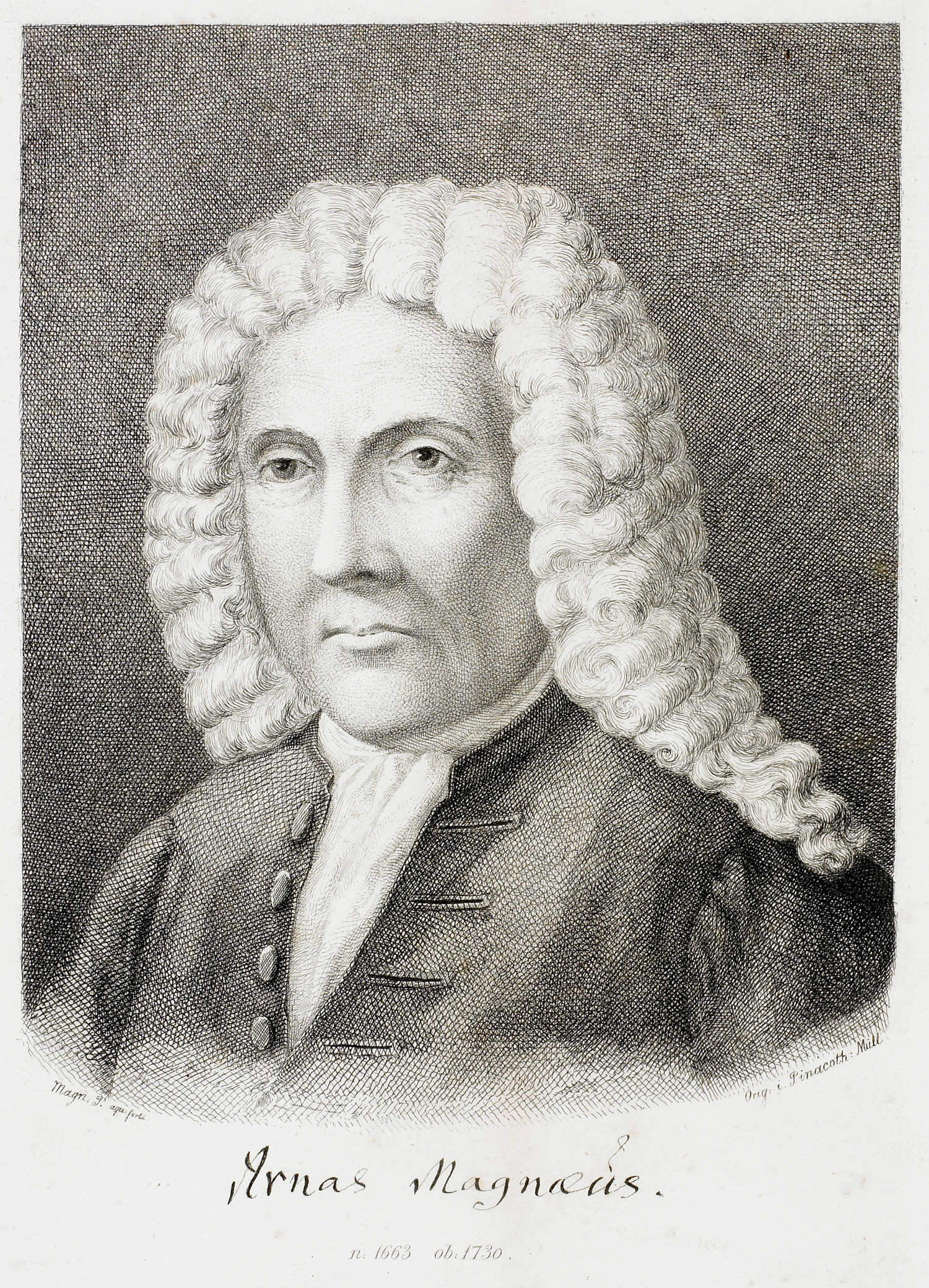 Bust of Árni Magnússon (1663-1730) an Icelandic scholar and collector of manuscripts.